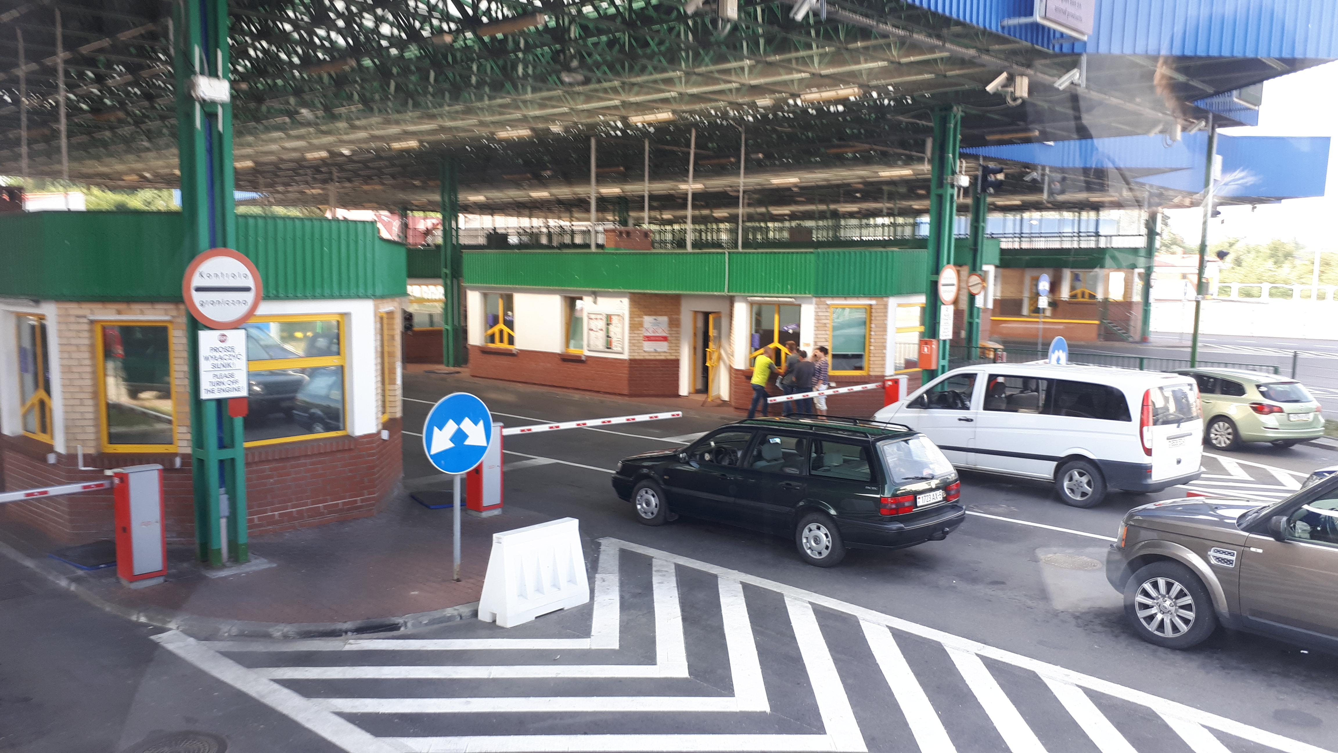 Berastavitsa-Bobrowniki border checkpoint between Belarus and Poland